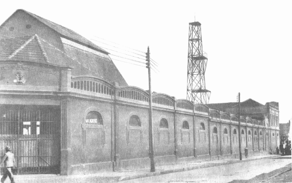 Old Headquarters of Firefighters - Parana / Brazil.